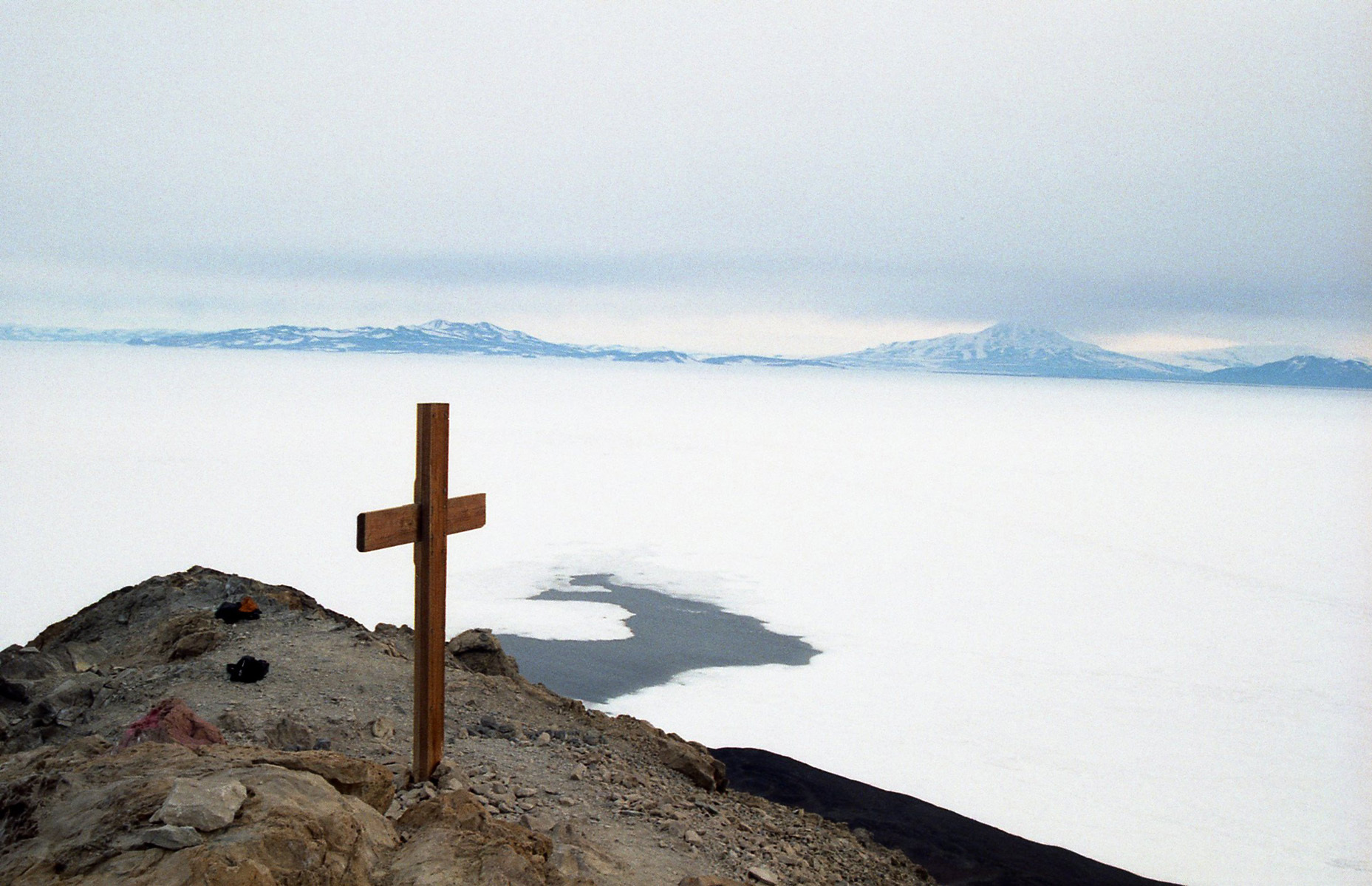 Memorial Cross erected in 1912 on Observation Hill near McMurdo Station. It was erected by the expedition team of Robert Falcon Scott who died on his return from the South Pole. Observation Hill (McMurdo Station)